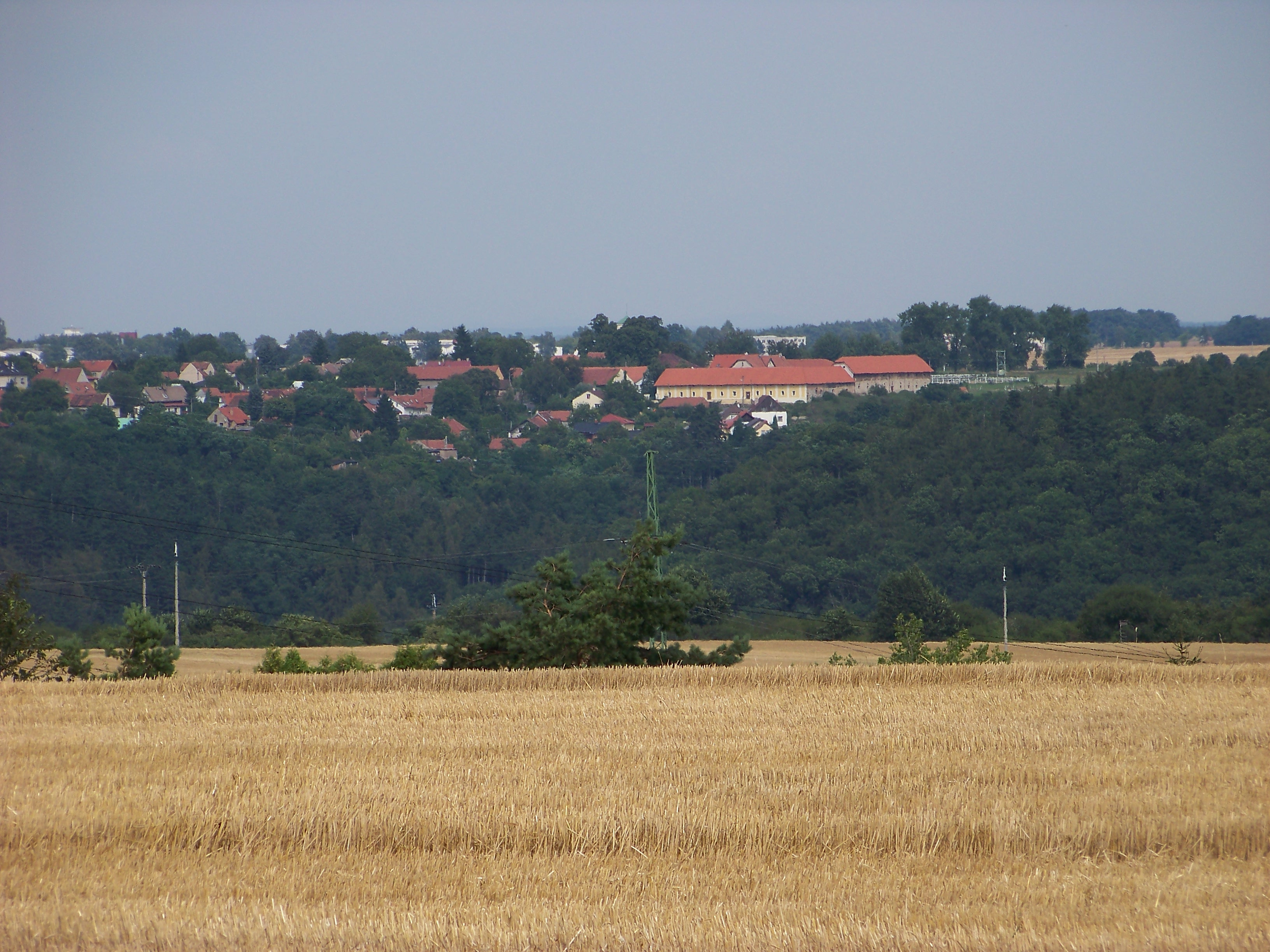 Tursko, Prague-West District, Central Bohemian Region, the Czech Republic. A view of Máslovice, Prague-East District.